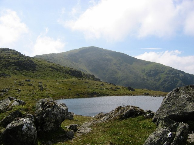 Beinn Heasgarnich and Lochan. Taken at the lochan in the corner of the square